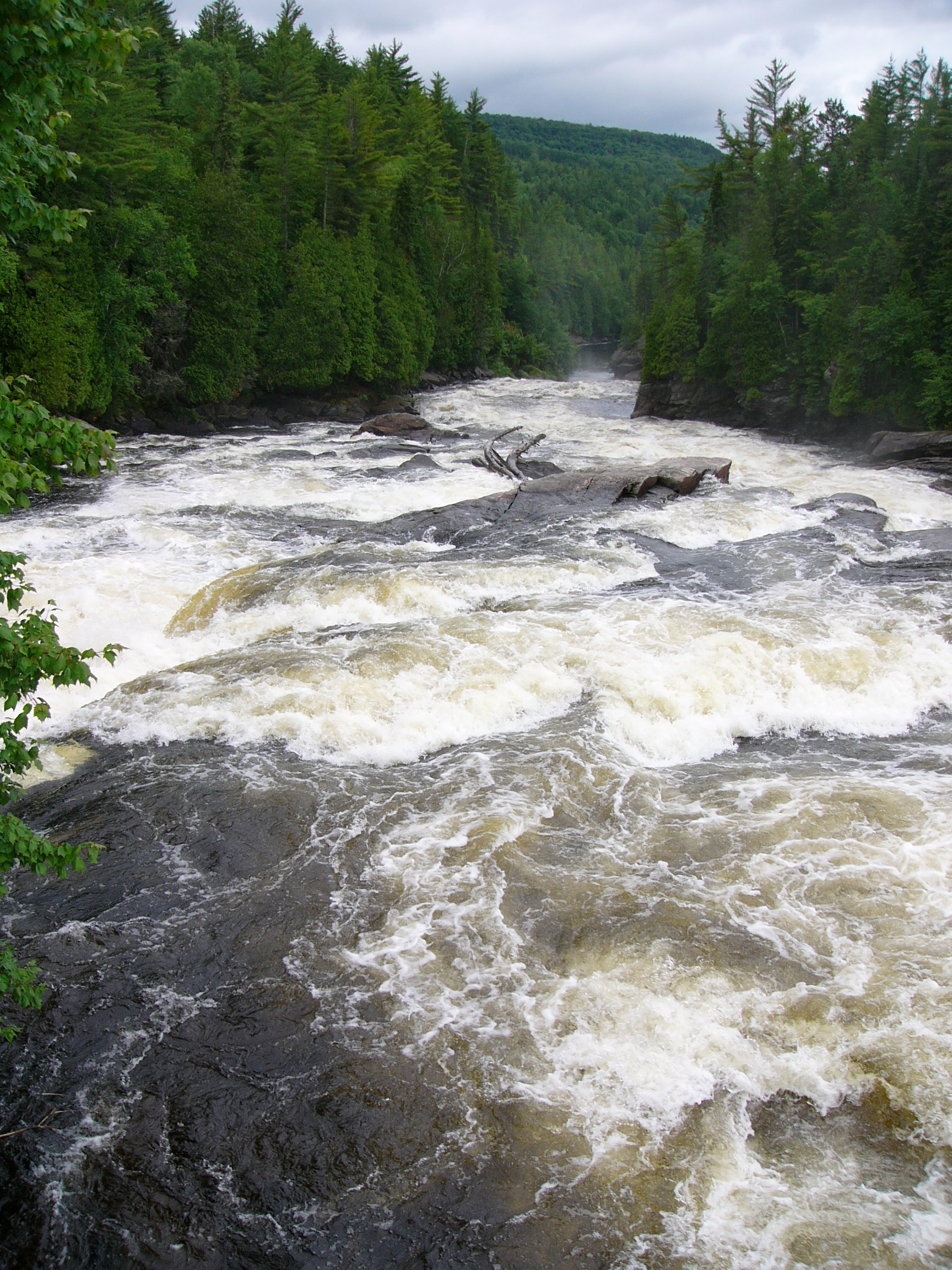 View down Grand Chute, Dumoine River, Quebec, Canada. Taken July, 2004. Zatoichi26 01:28, 20 July 2007 (UTC)